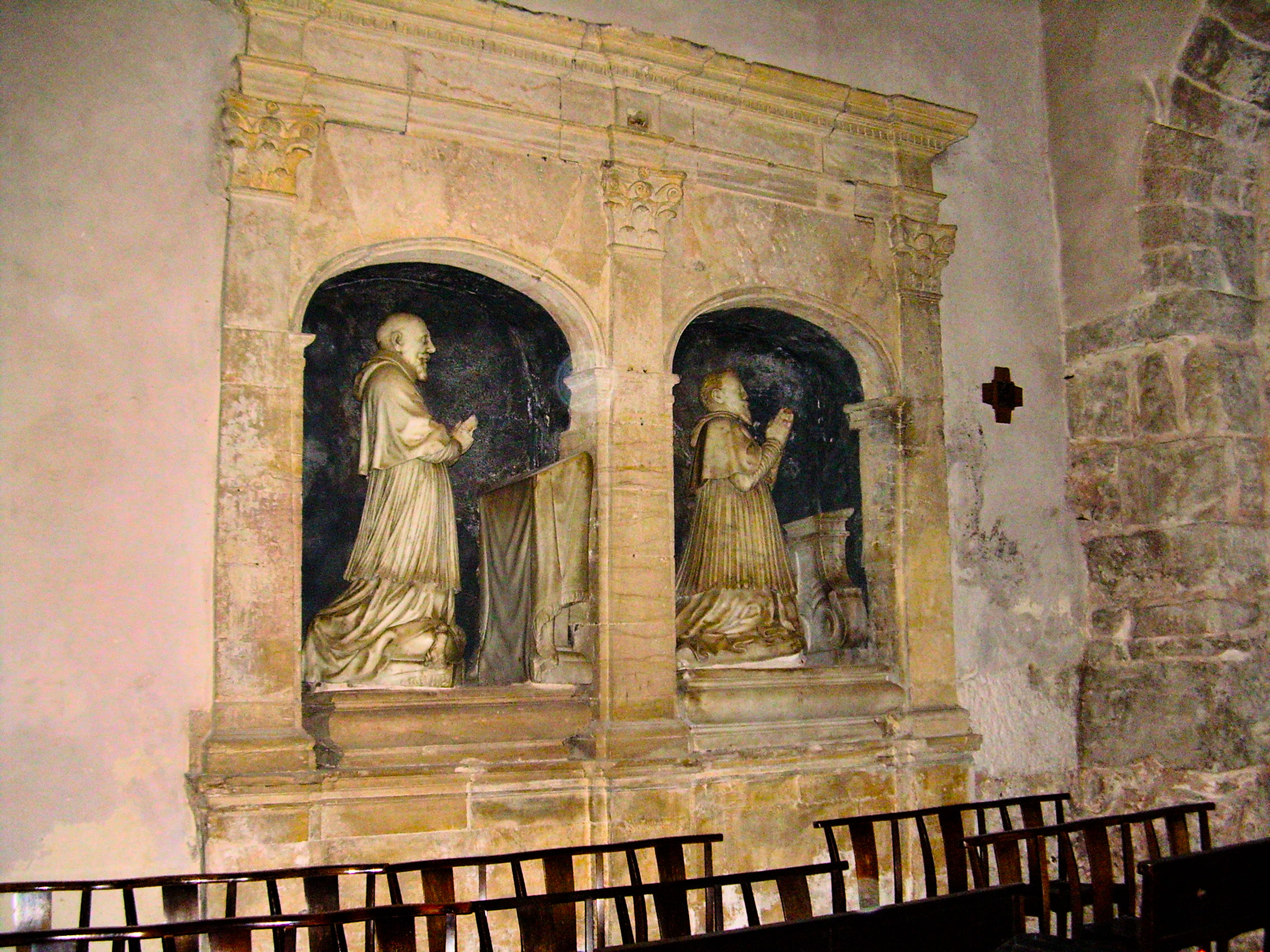 Saint-Leonce Cathedral, Frejus, France